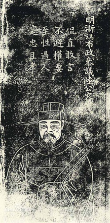 Lu Rong (Chinese: 陆容; pinyin: Lù Róng; 1436–1494) was a Chinese scholar. He is also known under the courtesy name Wenliang (文量) and the pseudonym Shizhai (式斋).